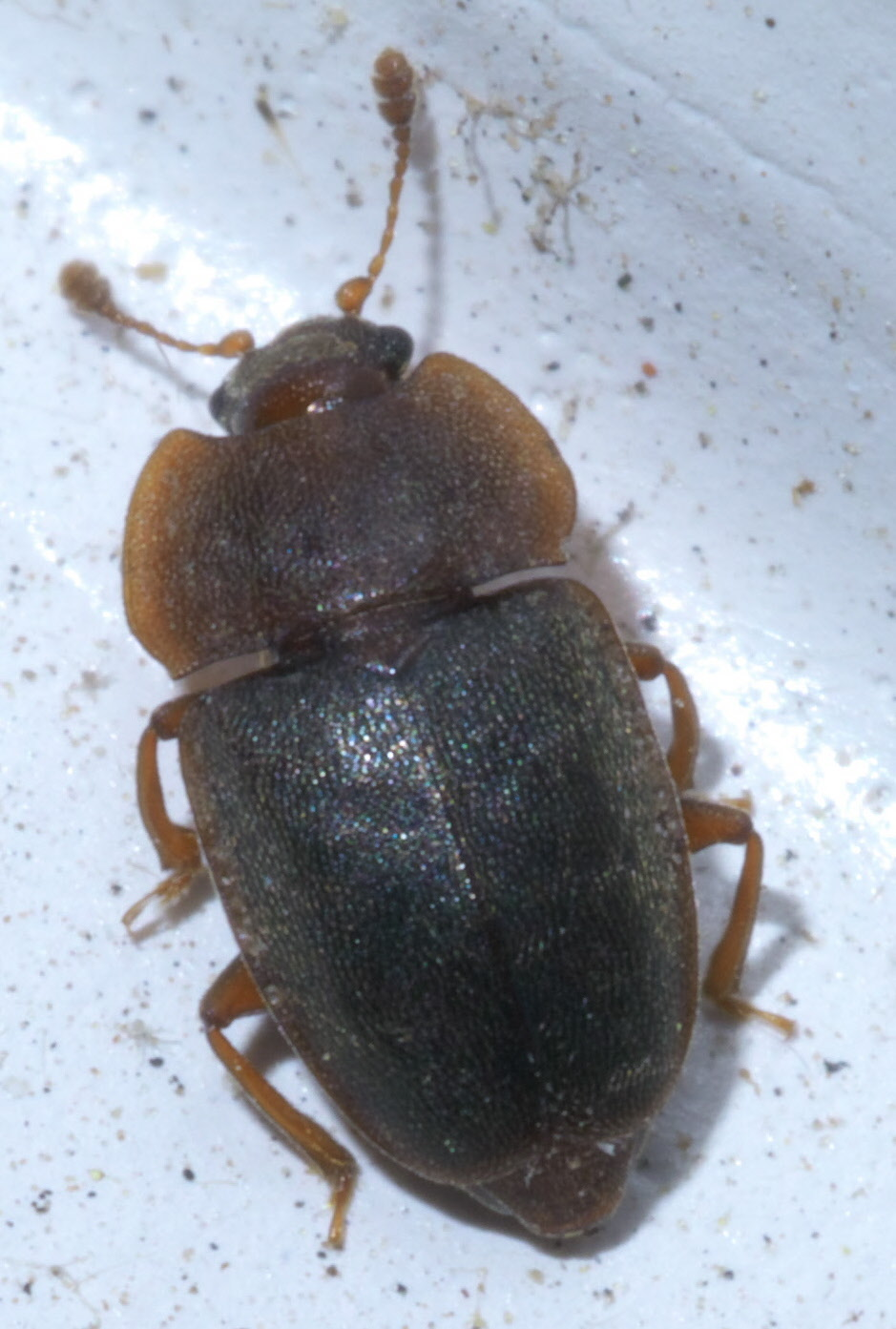 Epuraea rufa, Family: Sap-feeding Beetles, Size: 3.8 mm, ID Confidence: 98